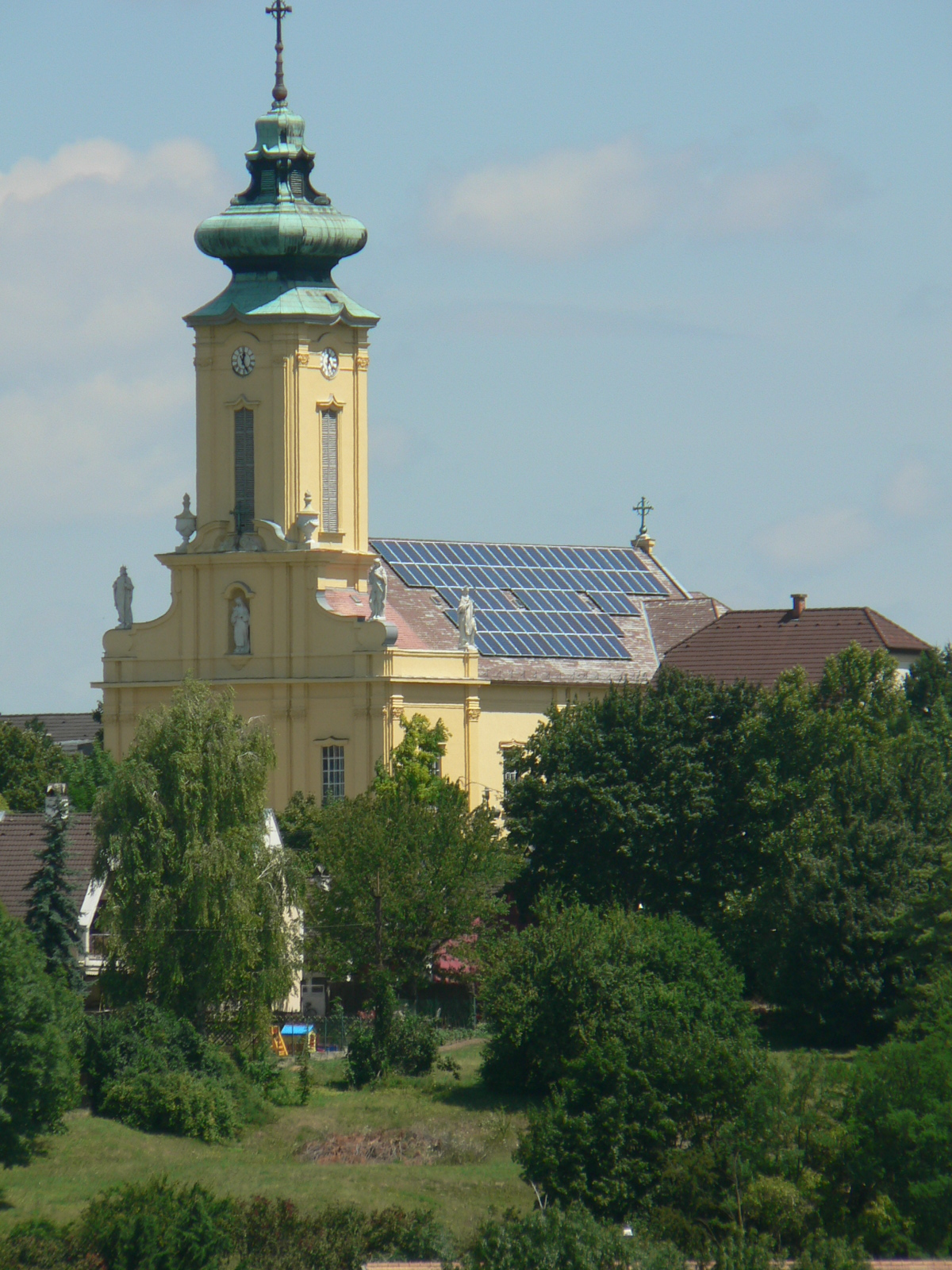 Az Árpád-házi Szent Margit templom Veszprémben a várkapu felől nézve